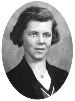 Photograph of the Finnish artist Aino von Boehm (1892–1939).